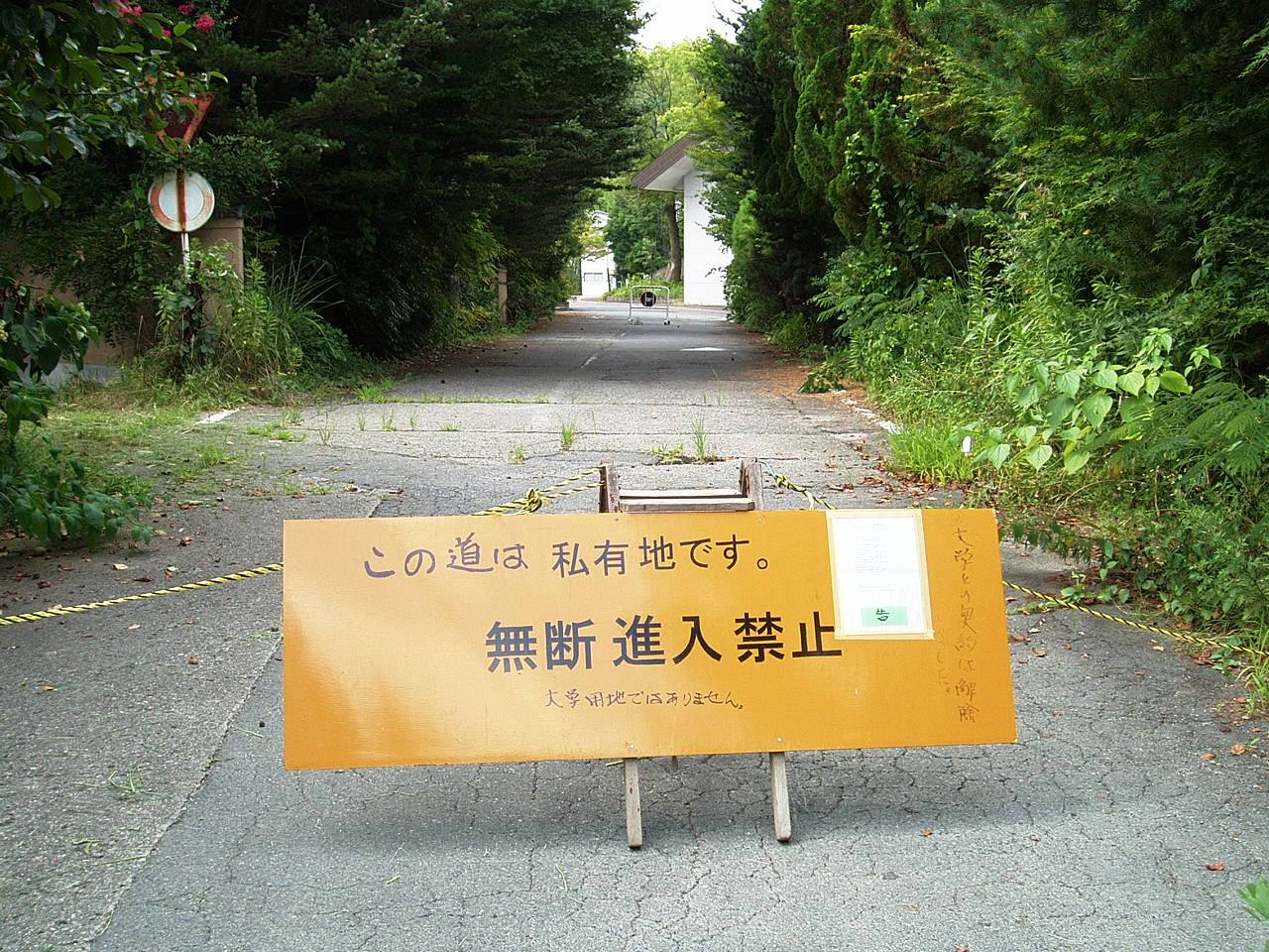 A "Keep out" sign at SouzouGakuen Nakayama Campus posted by a land owner.